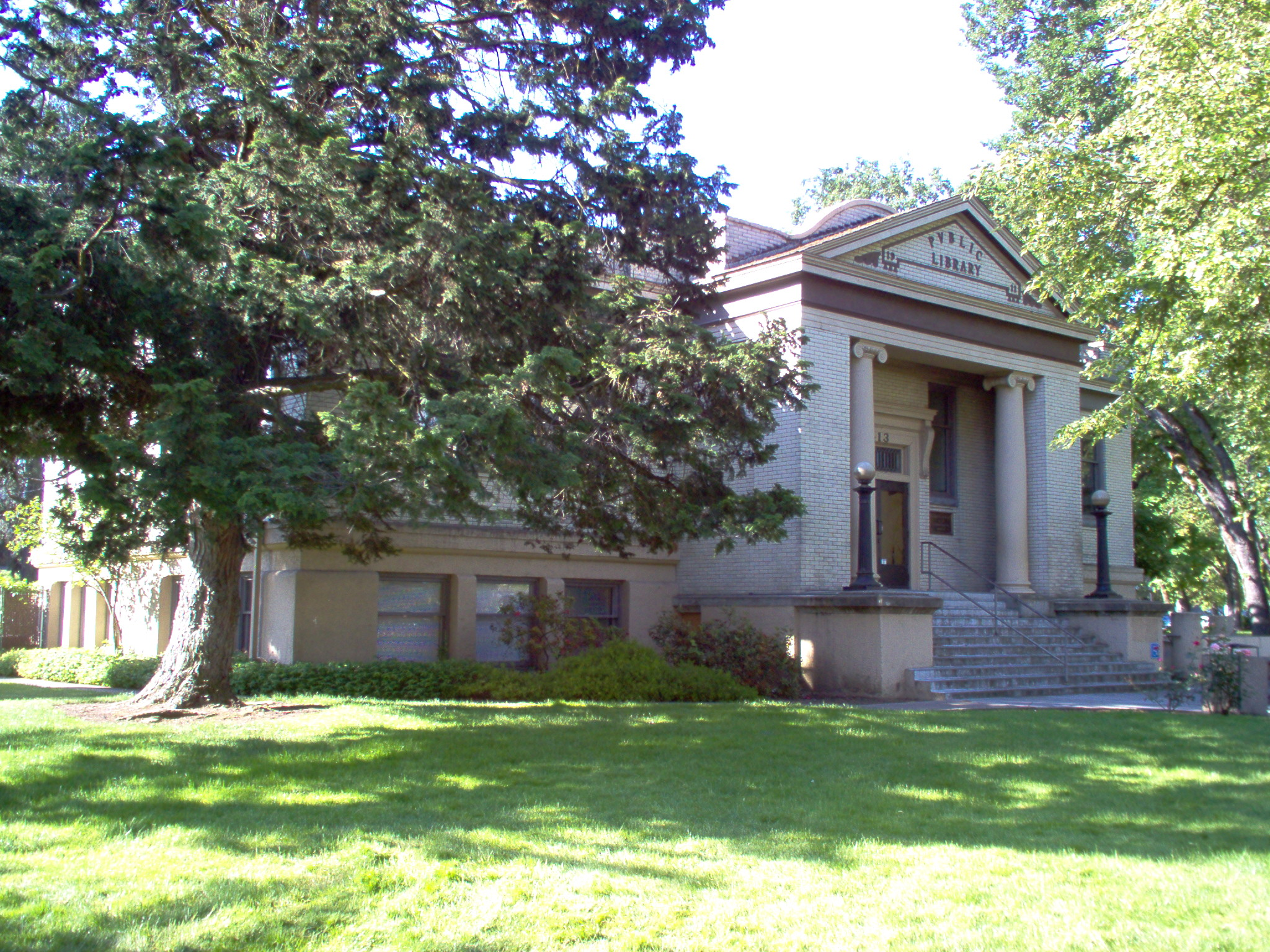 I took this picture myself. Zab 16:27, 21 May 2007 (UTC)